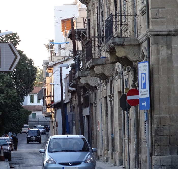 View of Tabakhane Neighbourhood, Nicosia, from the junction of Germanou Patron and Arsinoe streets Other information Photograph taken towards the west along Arsinoe Street, from the junction of Germanou Patron and Arsinoe streets, in the centre of Tabakhane Neighbourhood, Nicosia